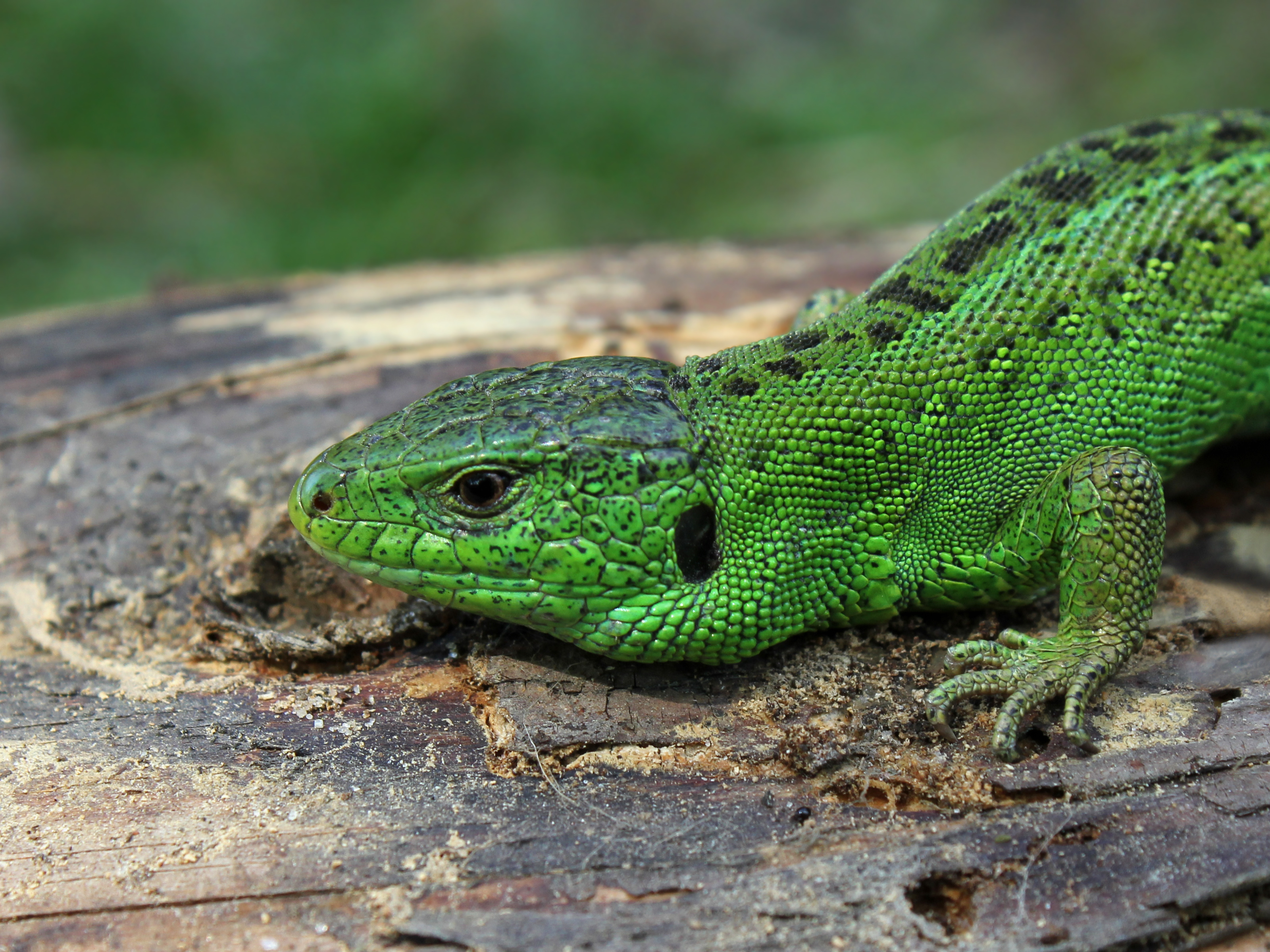 Sand Lizard male (Lacerta agilis)